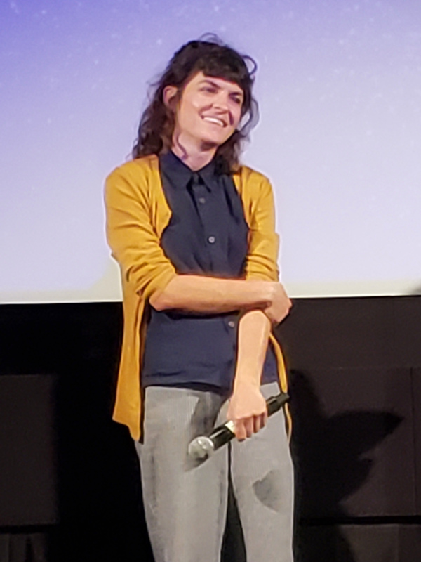 Jodie Mack at a Q&A for The Grand Bizarre at TIFF Bell Lightbox in Toronto, Ontario, Canada